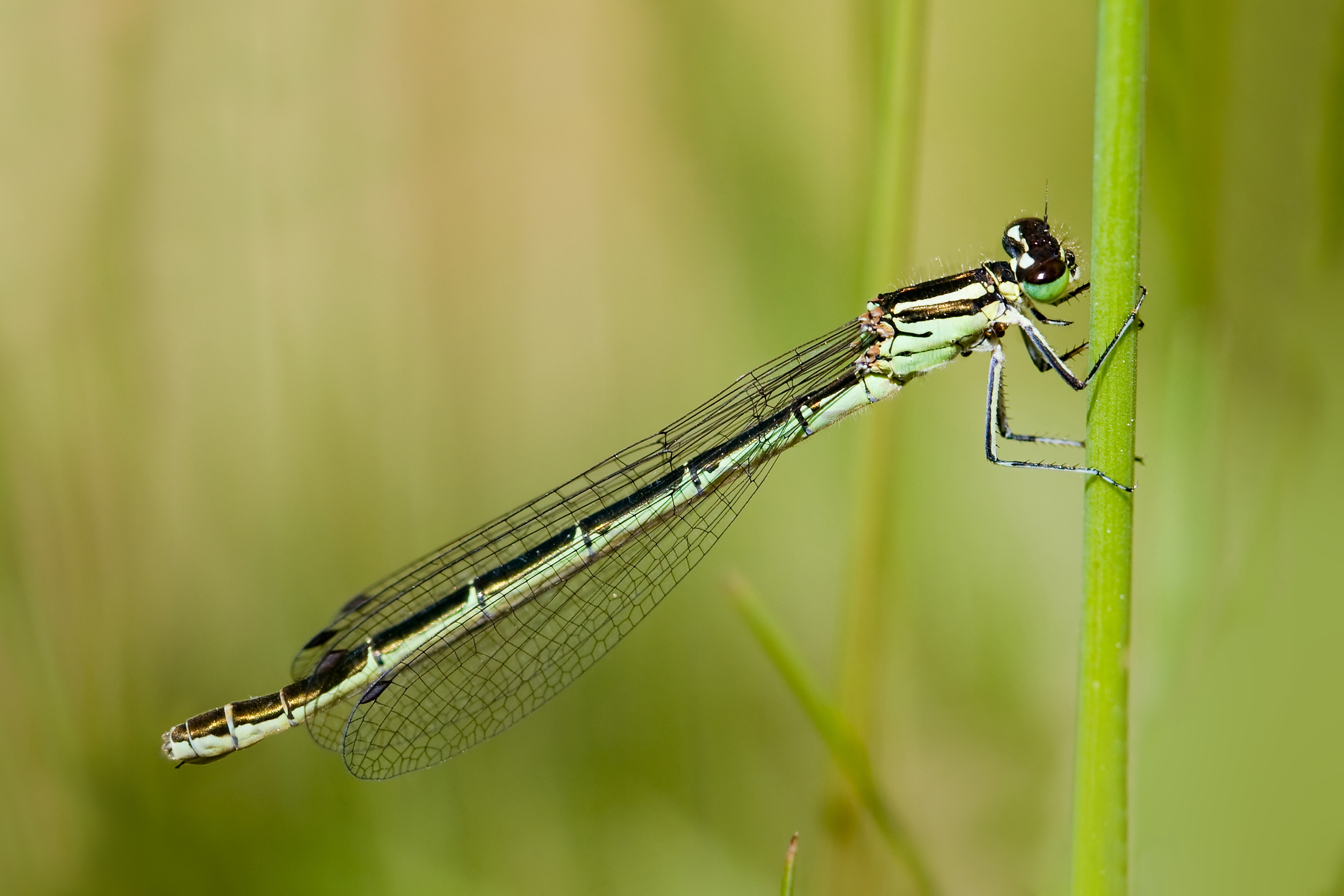 A female of the Northern Damselfly (Coenagrion hastulatum) in the Ahlenmoor, a peatland in northern Lower Saxony, Germany. The damselfly is parasitized by water mites (Arrenurus spp.).